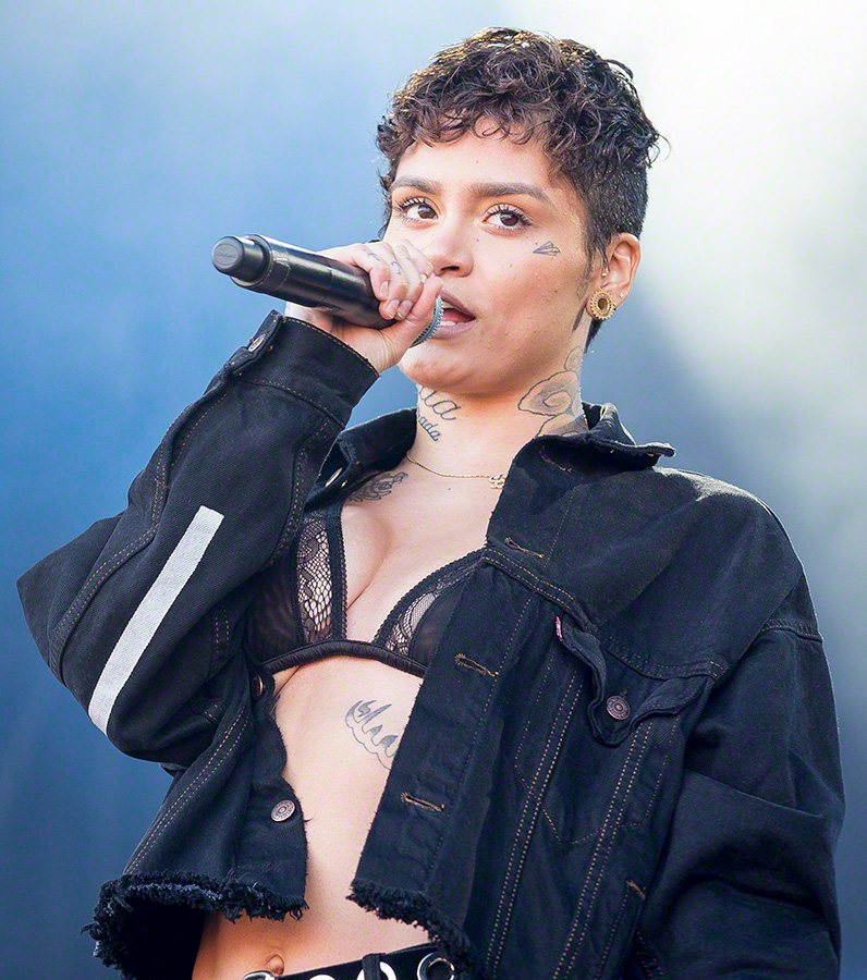 Kehlani at the minor stage during Stavernfestivalen in Stavern on 09. July 2016.Lineup: Kehlani Parrish (vocal)